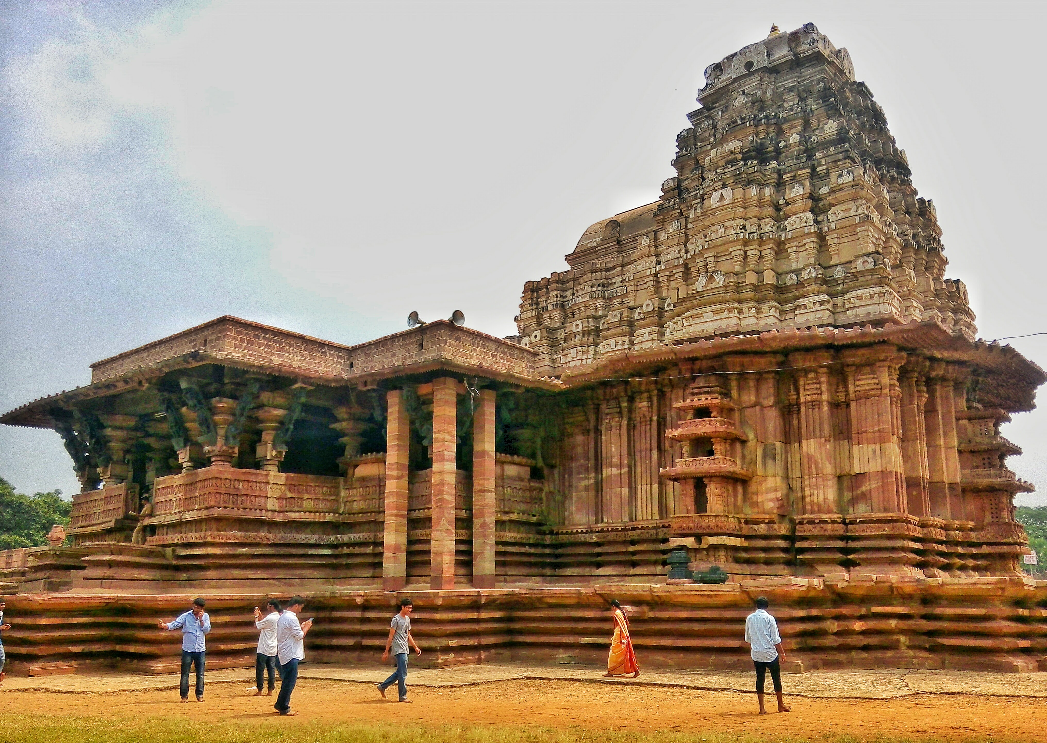 Ramappa Temple